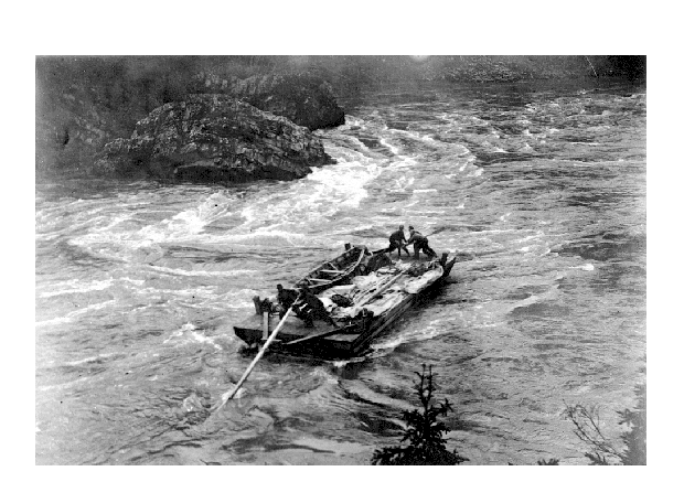 Photo taken 1908 Photograper Unknown BC Archives #A-04812 [1]